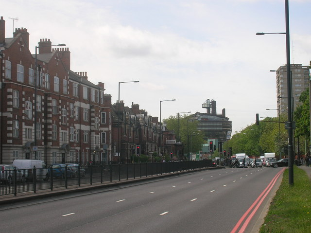 Talgarth Road W14 Approaching the junction with Gliddon Road W14